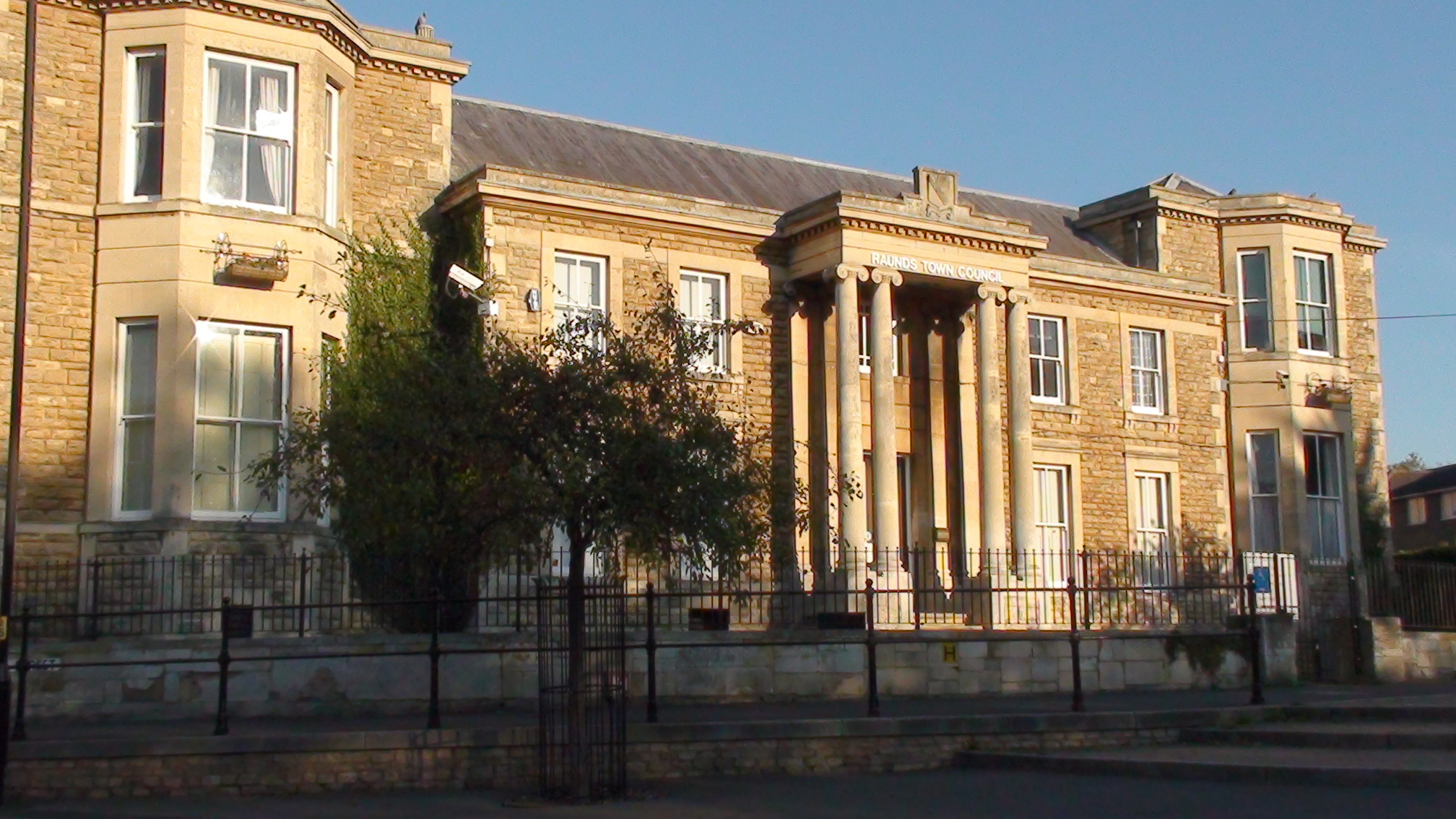 An image of Raunds Council.